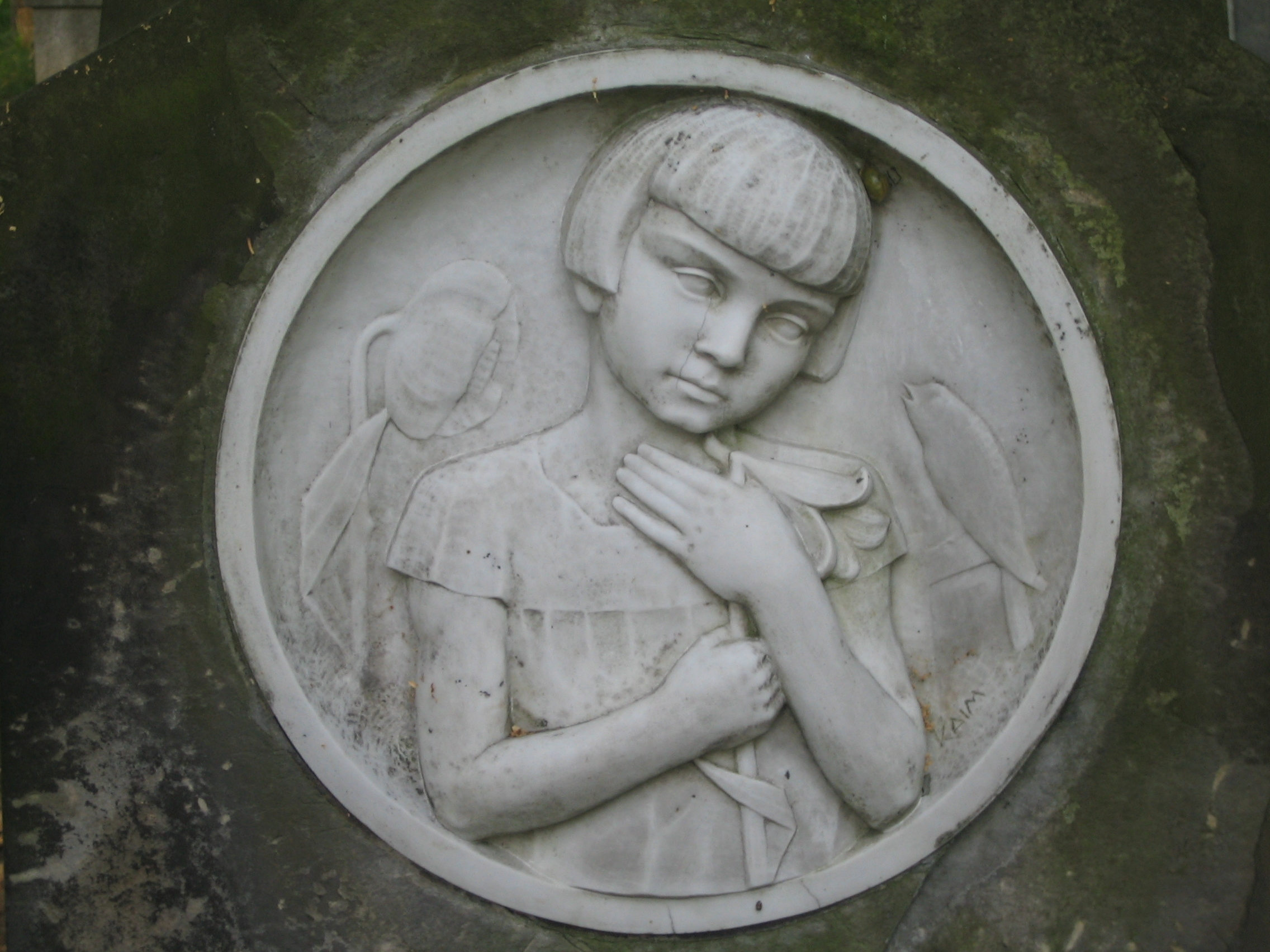 The tombstone of Maria Cofty (detail) at the Jeżyce Cemetery in Poznań